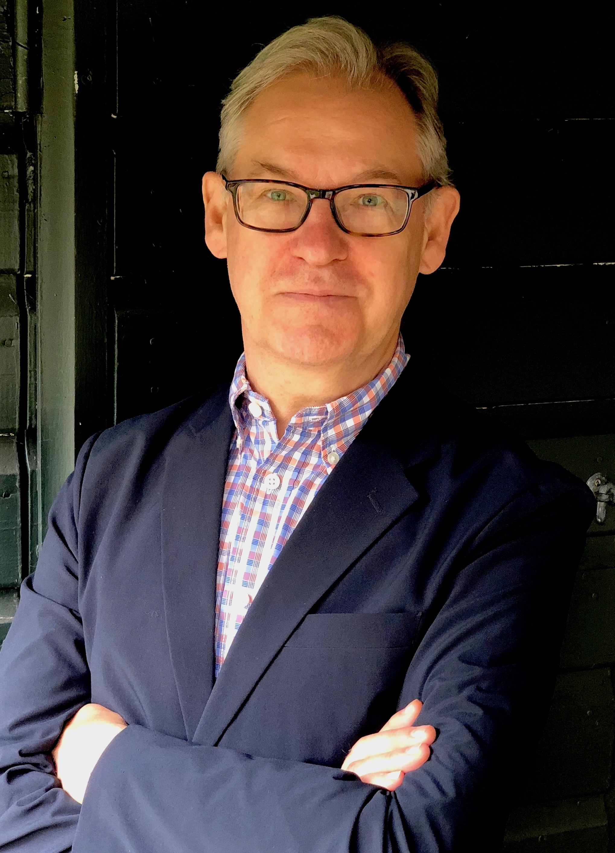 Parker in London, September 2019